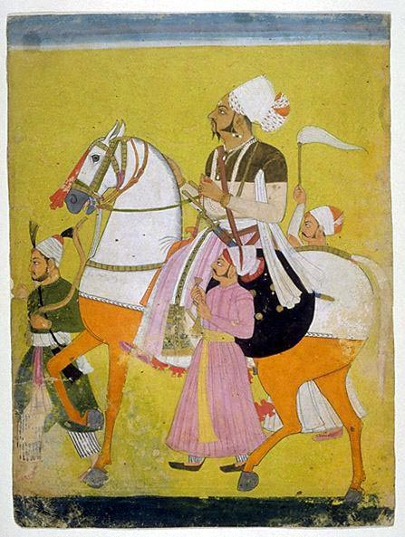 "Padam Singh of Ratlam," Jodhpur school, 18th century: *ZOOM capabilities* (FAMSF)